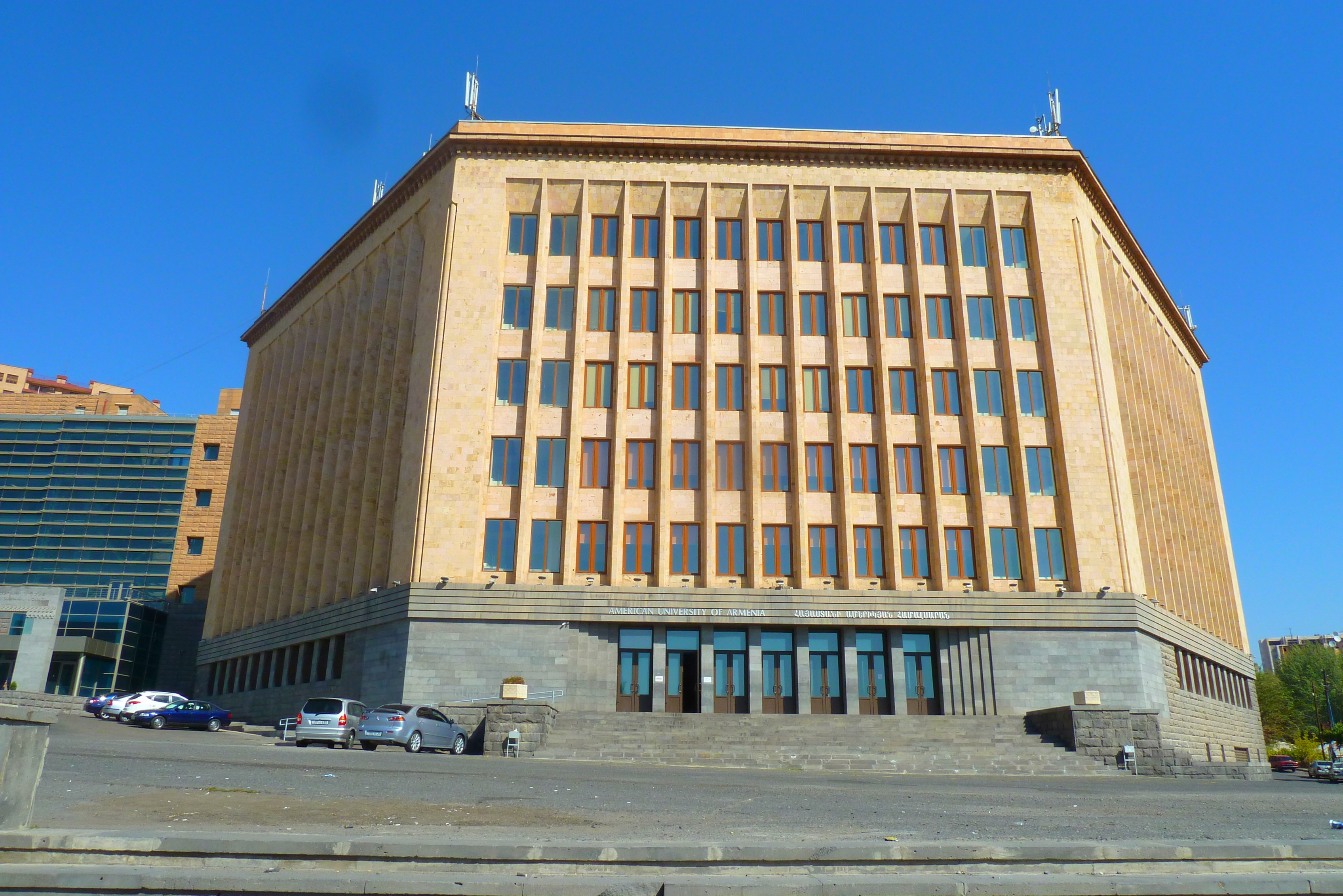 American University of Armenia in Yerevan